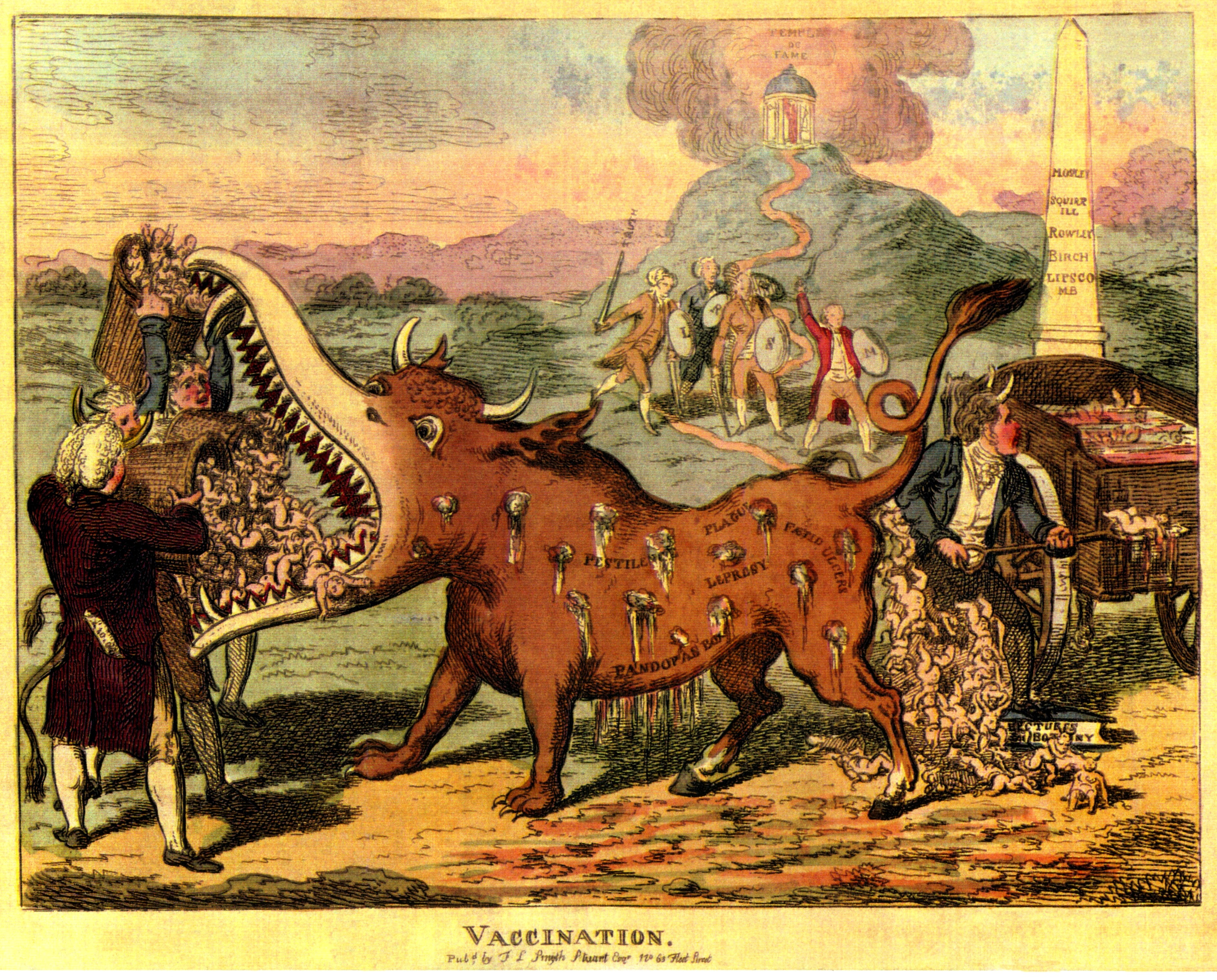 A satirical print of a proposed monument to 18th century recommenders of innoculation